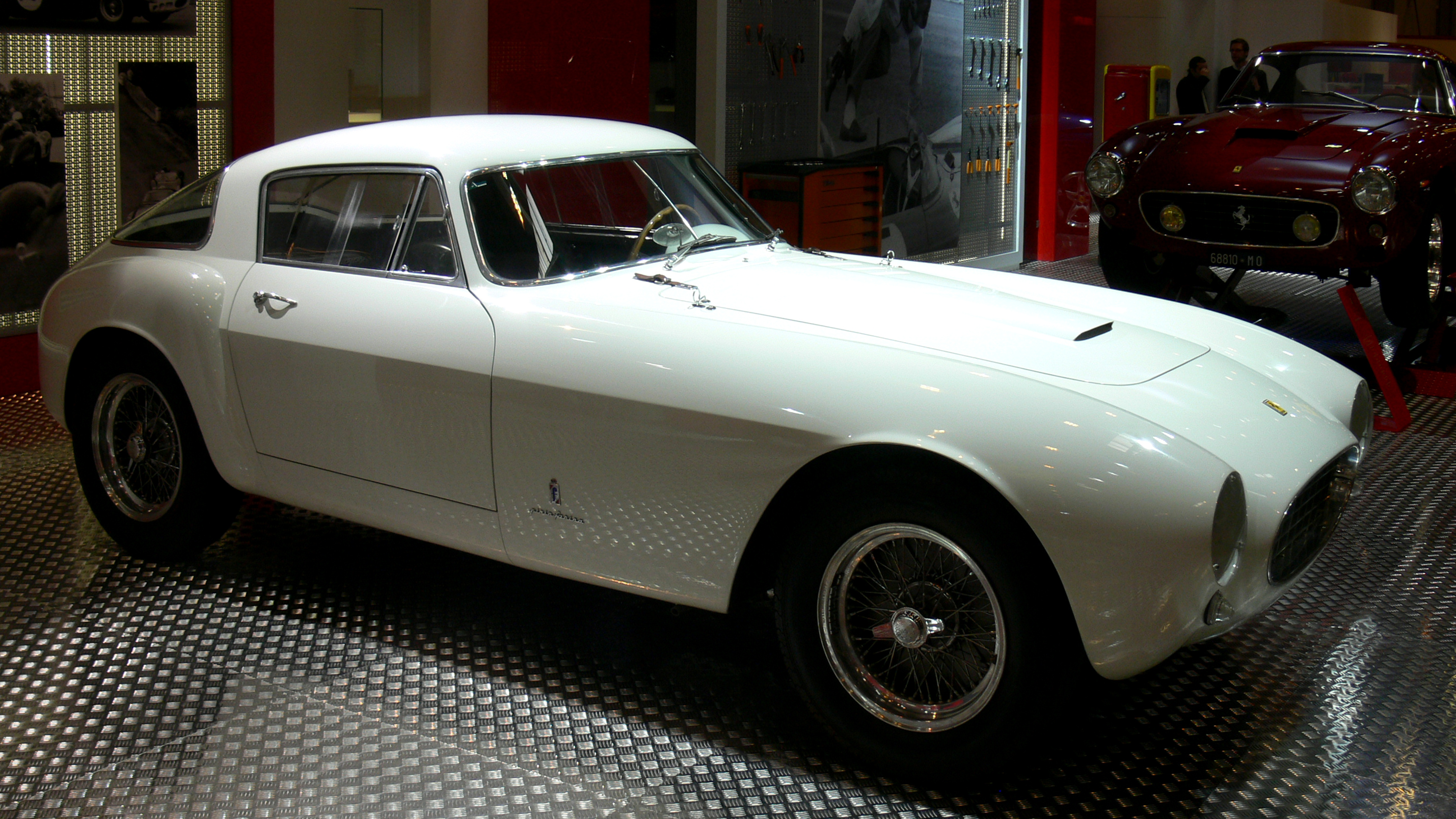 Ferrari 250 Europa GT (1955) at the Technoclassica 2009 in Essen. In the back is 1961 Ferrari 250 GT SWB Berlinetta Competizione s/n 2845GT.